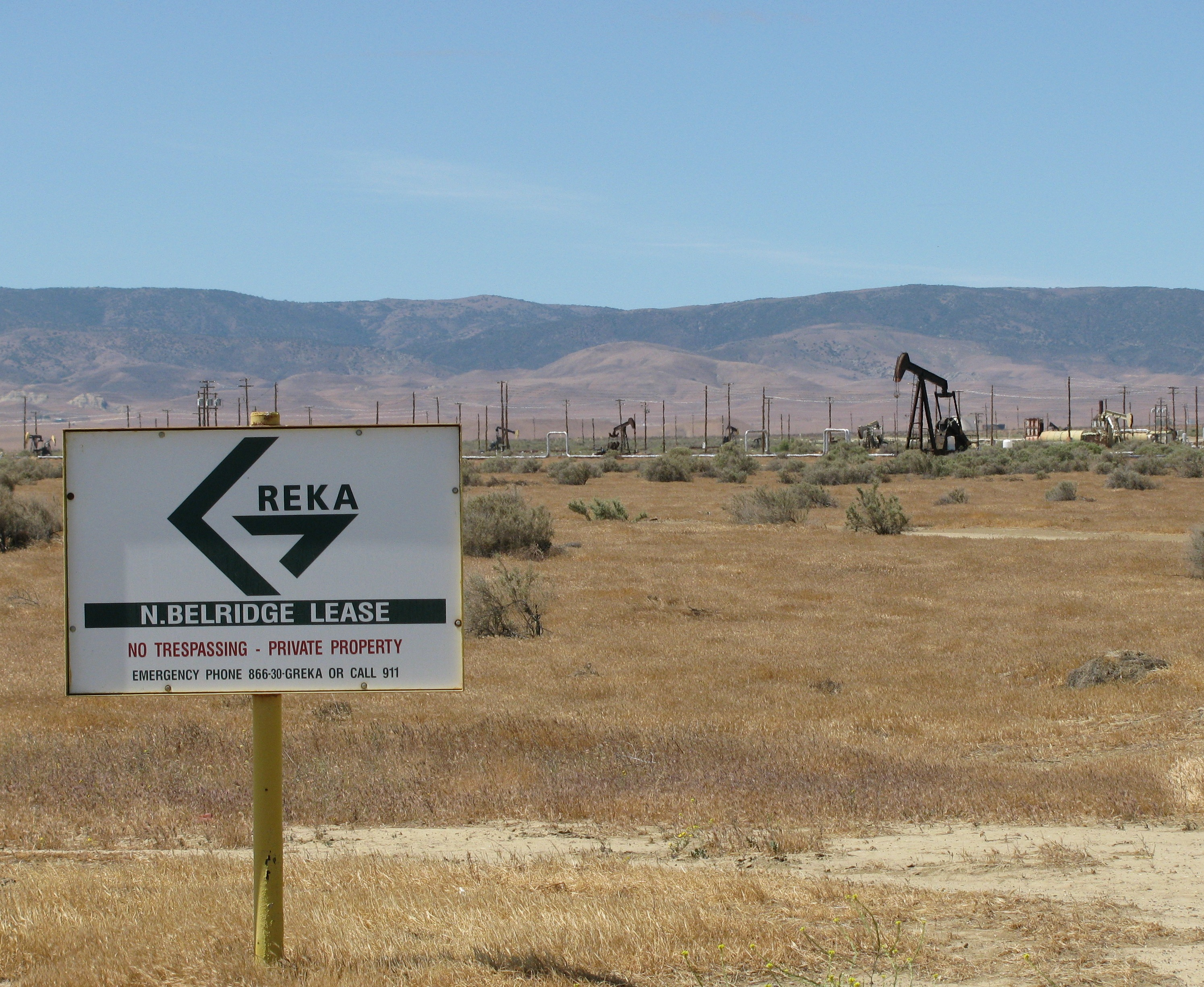 Greka operations on North Belridge. Photo by self, May 3, 2009; GFDL.